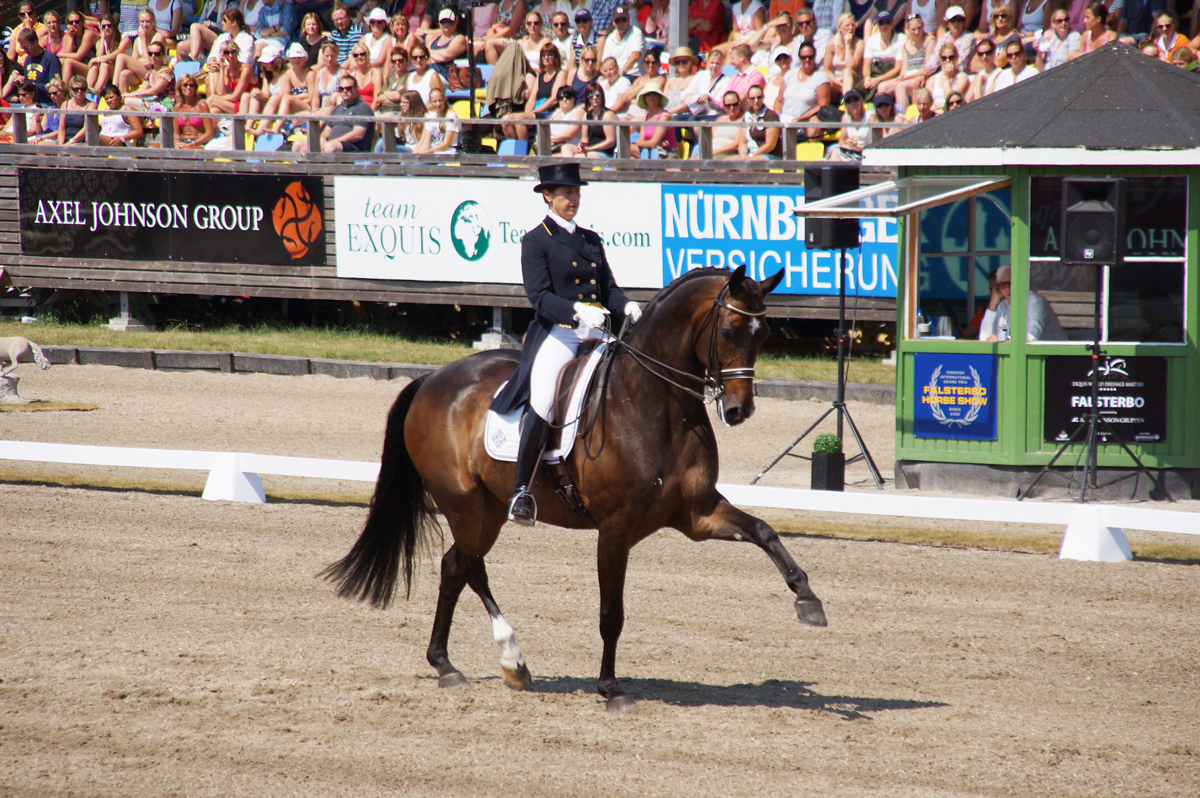 Tinne Vilhelmson Silfvén and Don Auriello at the CDI5* WDM Falsterbo 2013